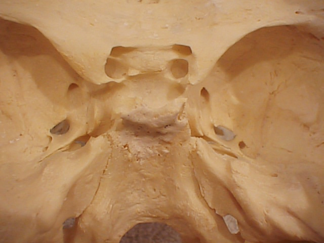 Photograph of the sella turcica of the human cranial base